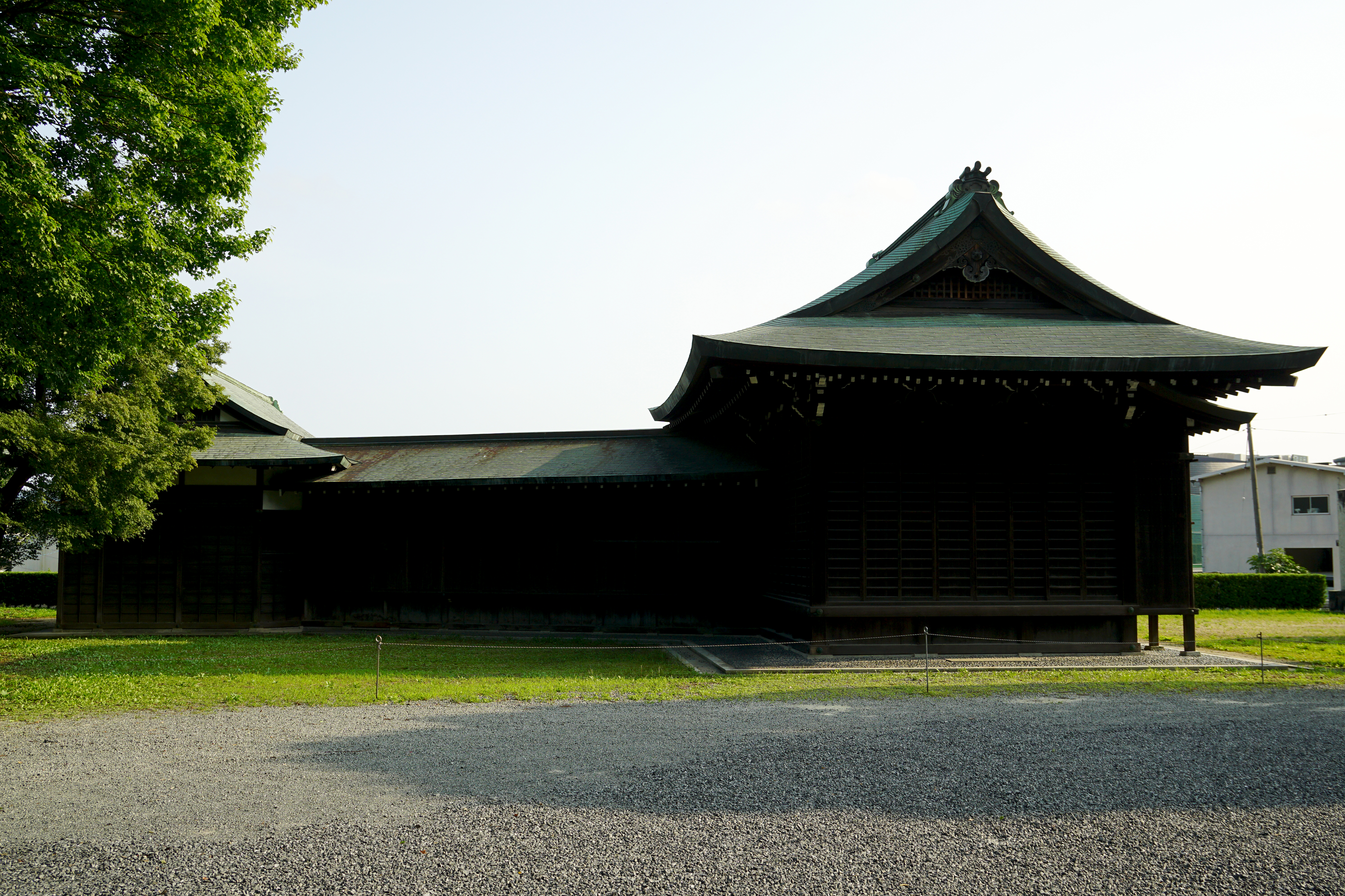 Noda-jinja in Yamaguchi, Yamaguchi prefecture, Japan.